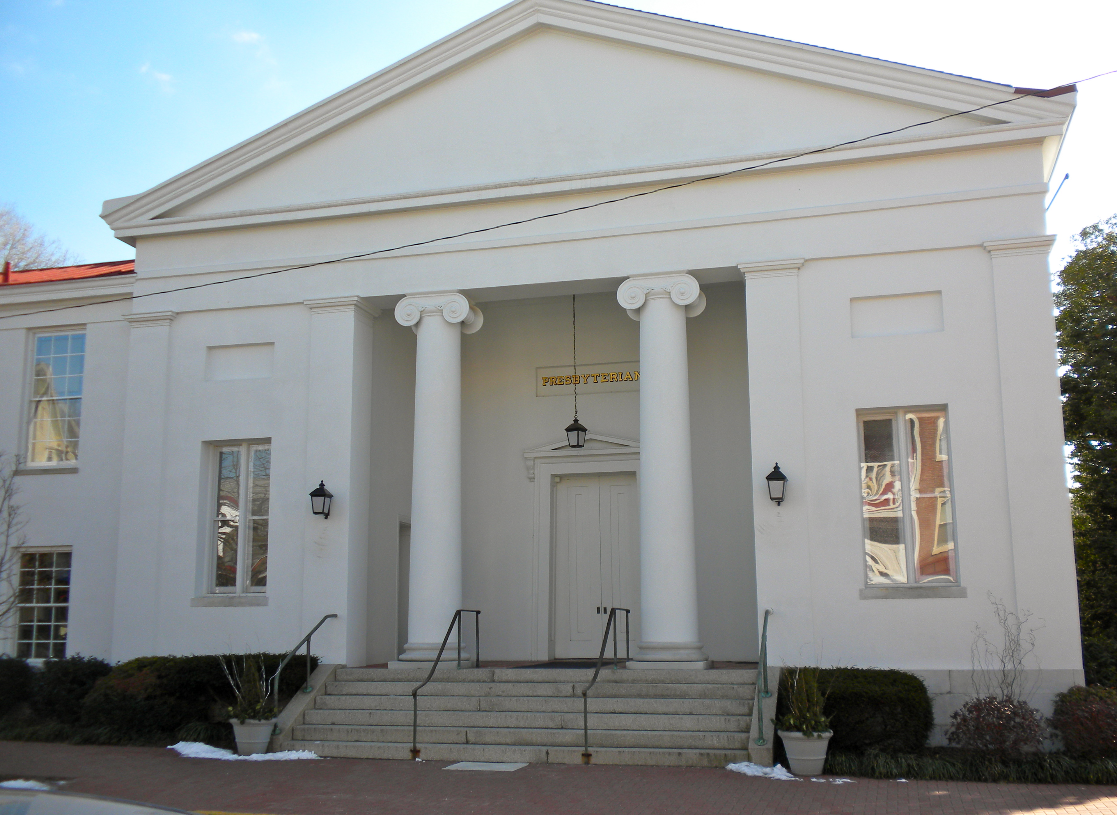 1st Presbyterian Church on Miner Street, West Chester PA. On NRHP. I donate this photo to the public domain. Believed to be the first commission of architect Thomas U. Walter